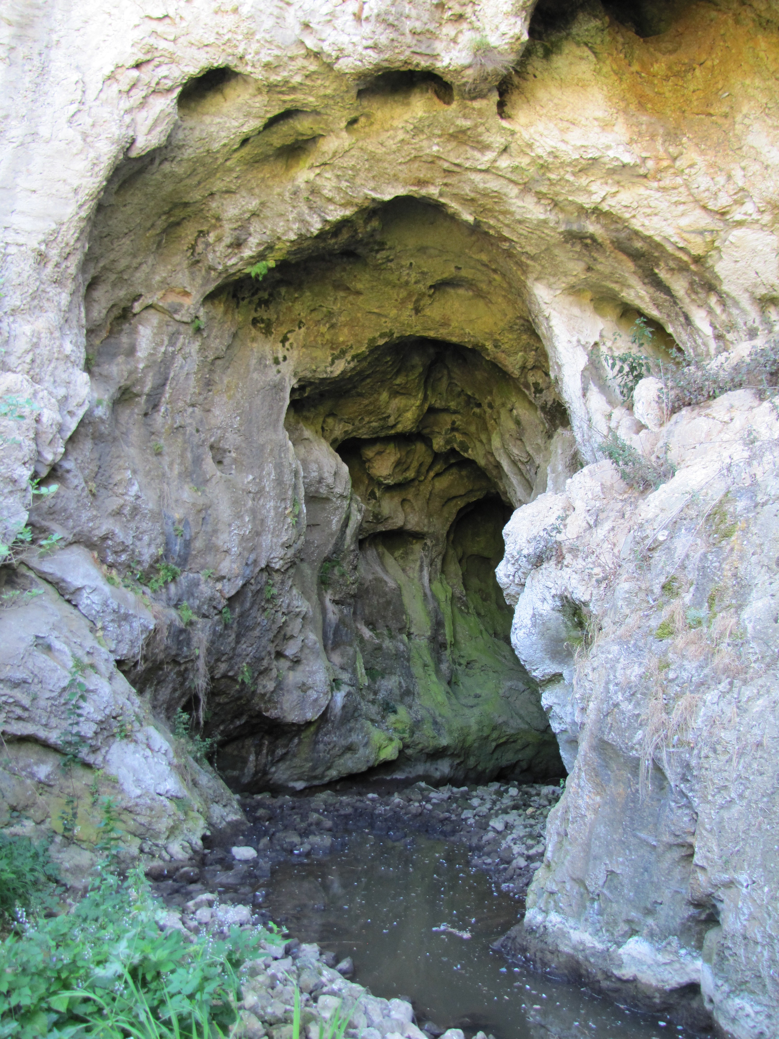 Pandiralo sink cave of the Svrljiški Timok. Српски (ћирилица): Пандирало, понор Сврљишког Тимока.